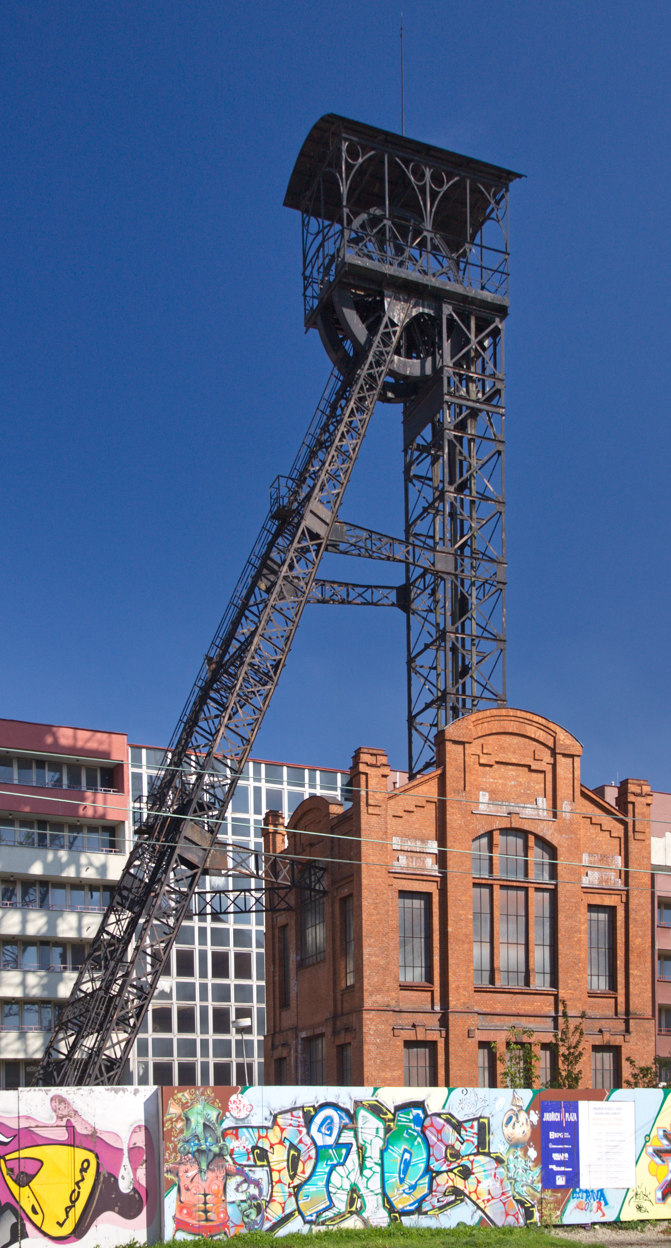 Tower shaft, coal mine Jindřich, Moravská Ostrava, 93 Dimitrovova street, Ostrava. Moravian-Silesian Region, Czech Republic.